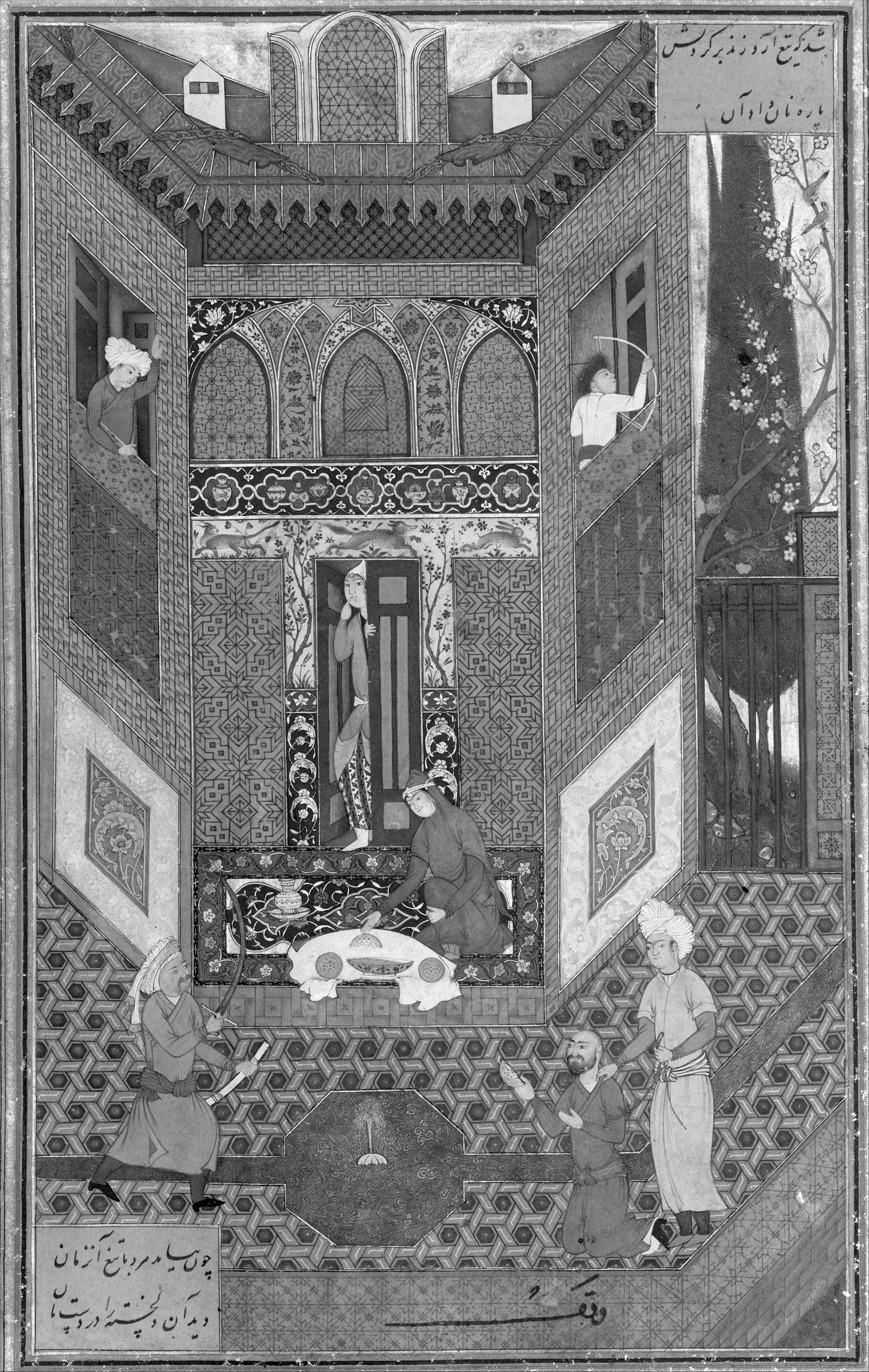 Folio from an illustrated manuscript; Codices